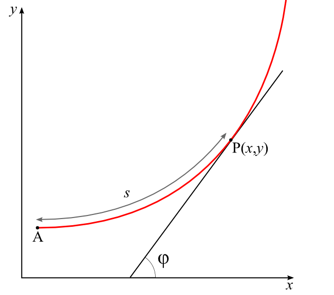 Graph showing how intrinsic coordinates are defined.